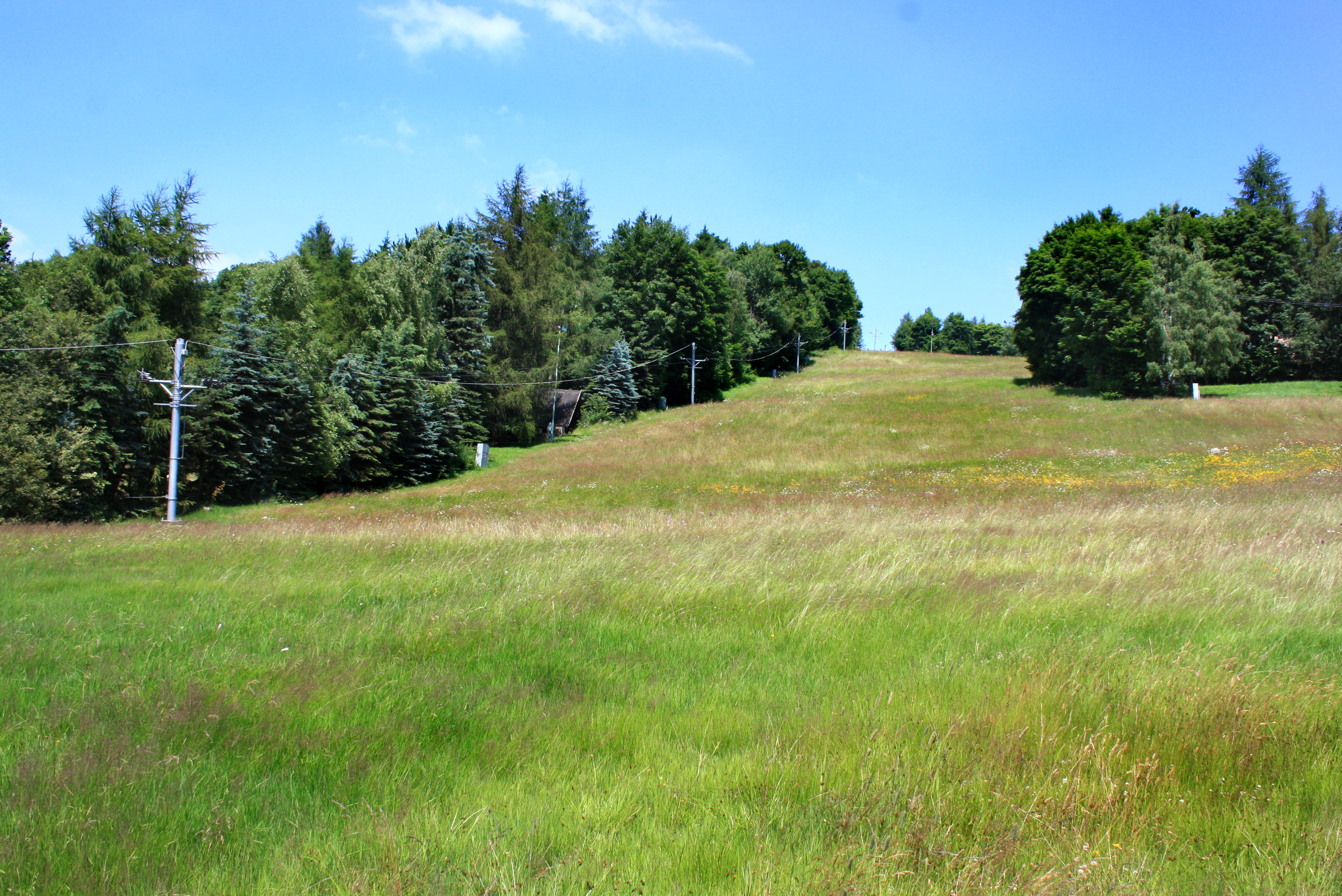 Ski tow at Mezihoří village, part of Blatno, Czech Republic